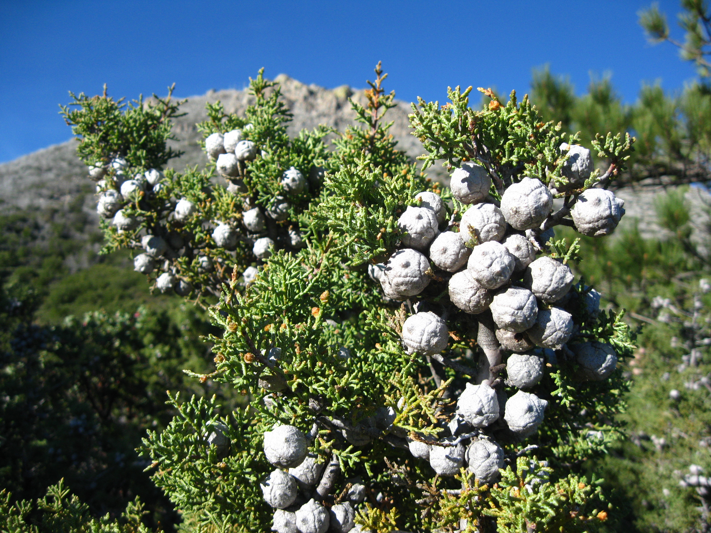 Cupressus stephensonii cones at Cuyamaca Peak